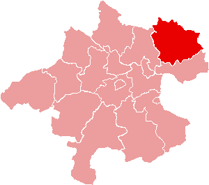 Location of Bezirk Freistadt within the Land of Upper Austria